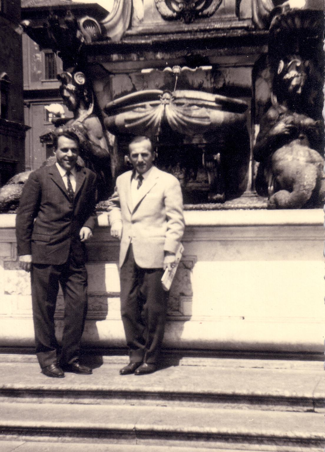 Painters William Girometti (on the left side) and Tito Salomoni, 1964 (Girometti family's photo album)